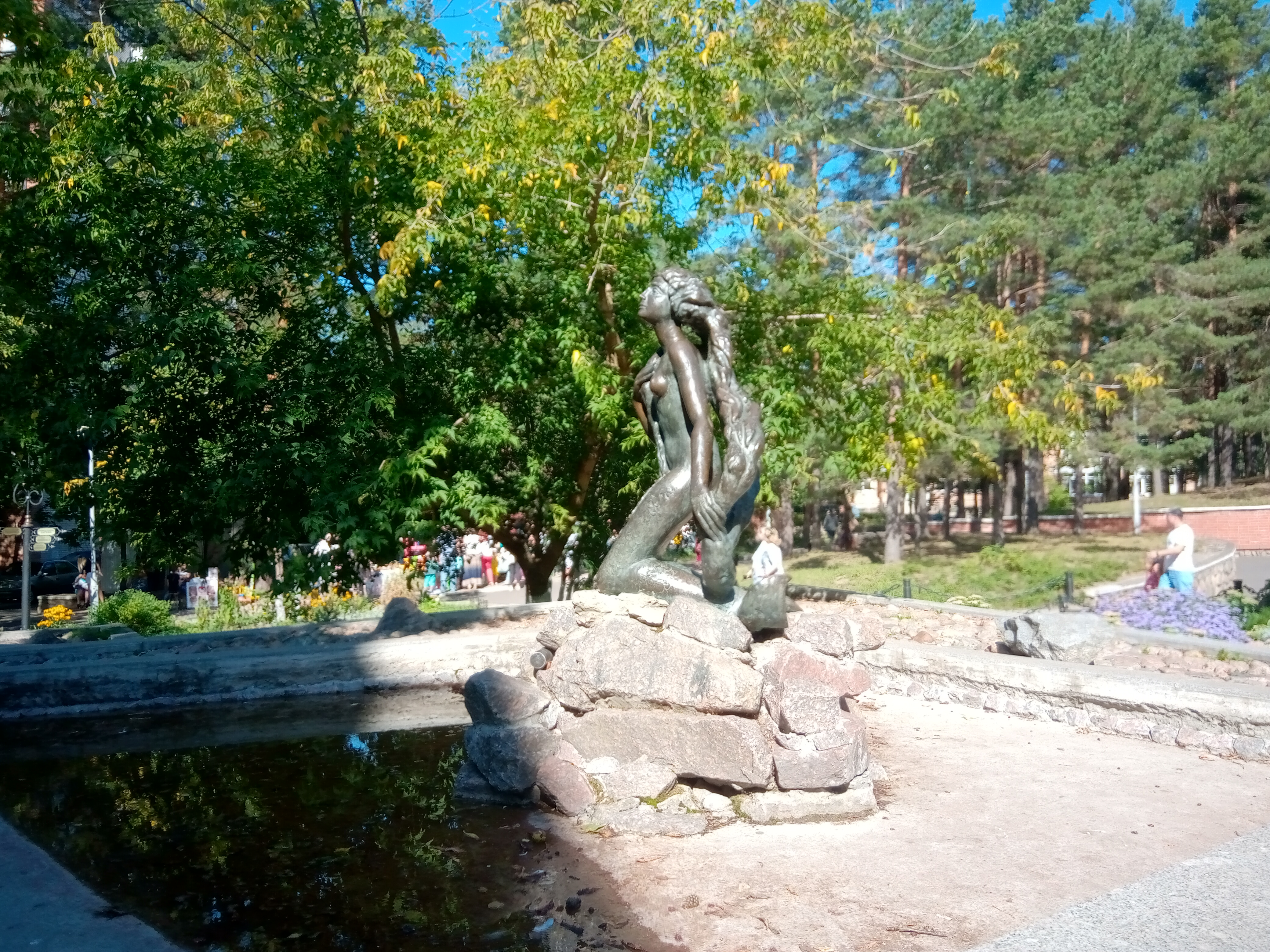 Andersengrad, Sosnovyj Bor